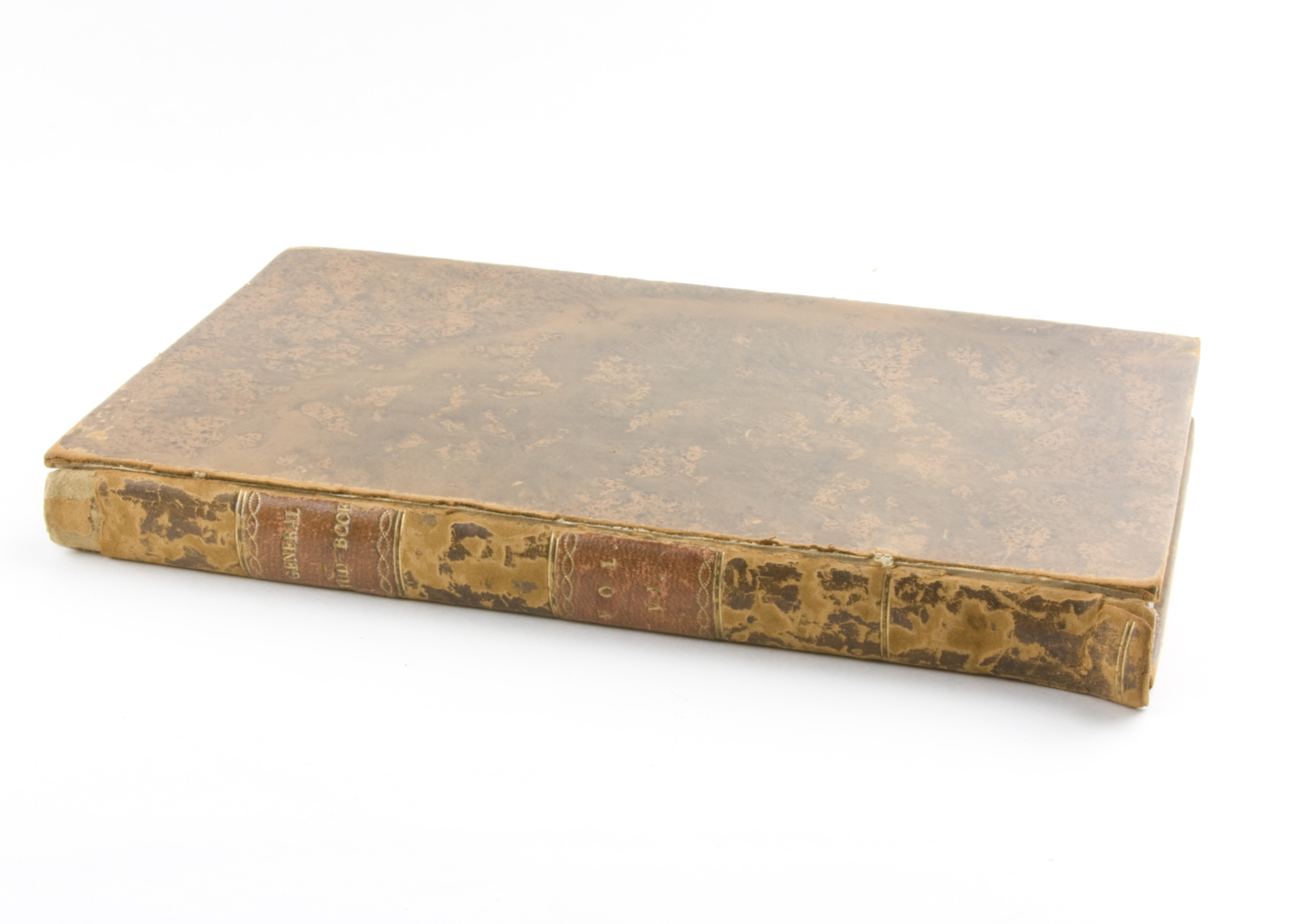 Volume 6 of the General Stud Book, 1857, the stud book for English Thoroughbred horses